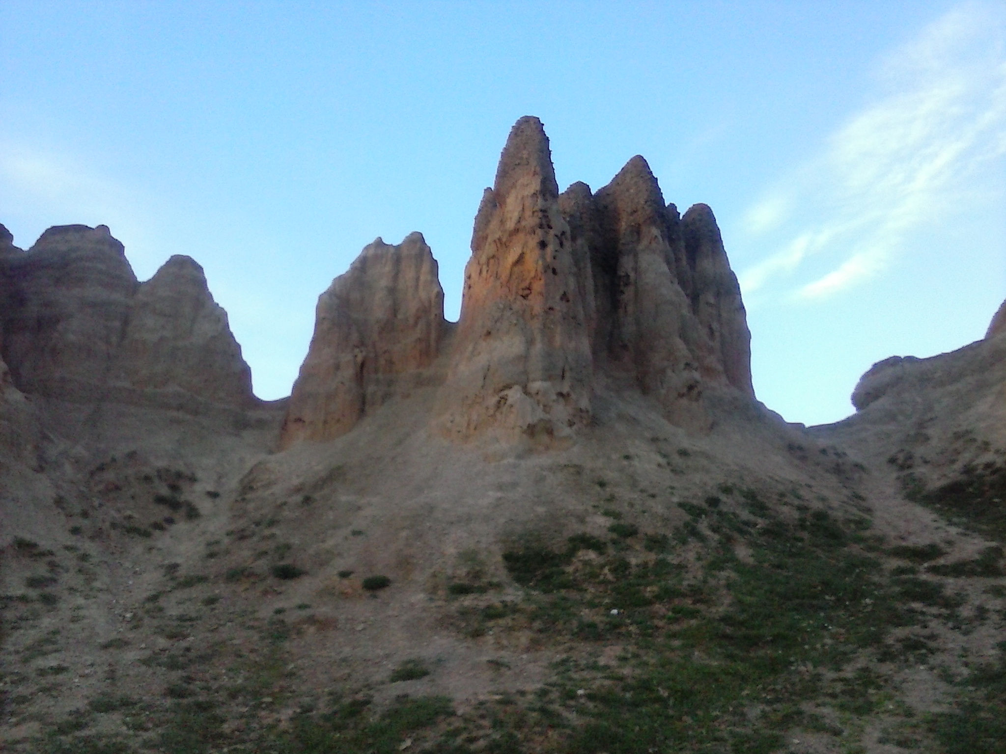 Foča, Republika Srpska